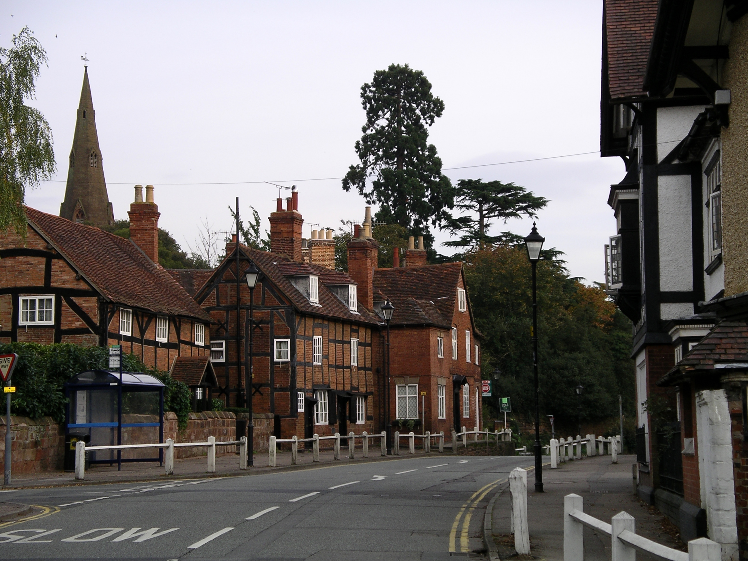 Photo taken on 19 October 2006 of Allesley Village, Coventry, England.